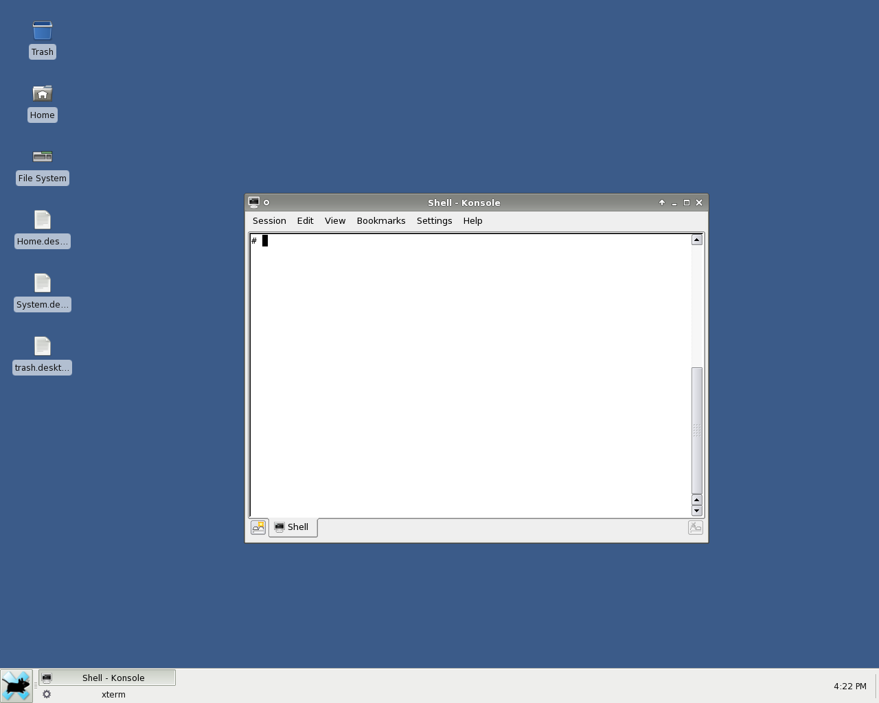 OpenBSD with Xfce installed (with a Gnome icon theme).